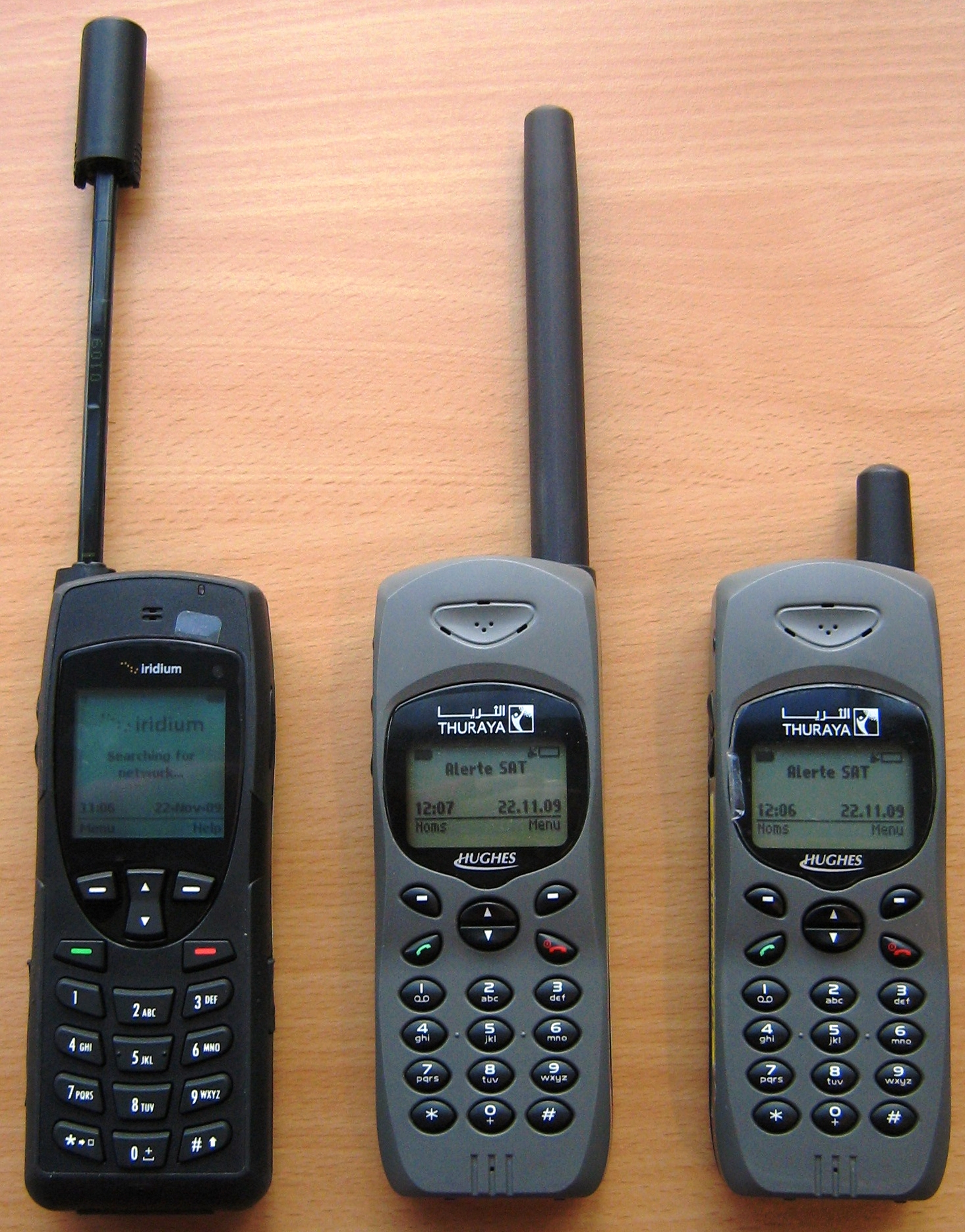 Satellite_phones.